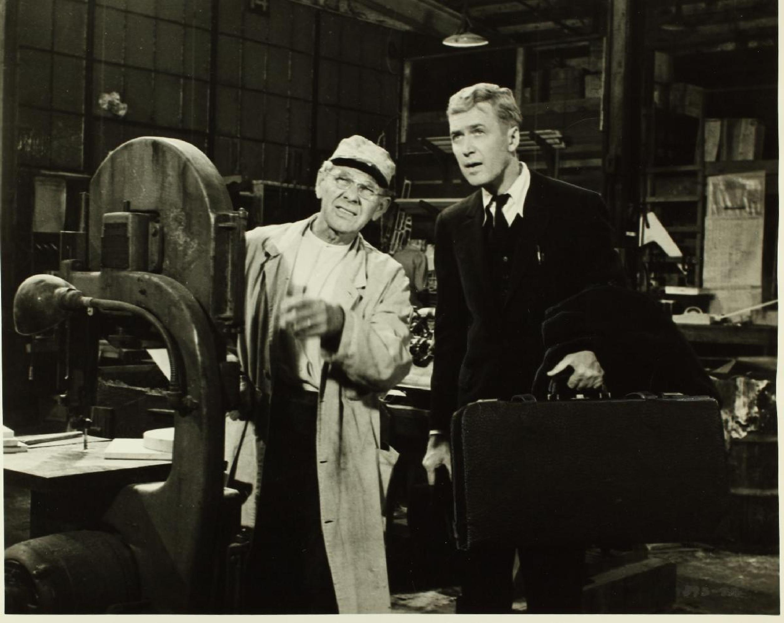 Catalog #: 04_03408 Album: 34 Description: Producer Leland Hayward and Jimmy Stewart as Lindbergh with the Spirit replica for the movie The Spirit of St. Louis. Date: 1955 Album Name: Movie Spirits - Vol 1 Page Number: 11 Repository: San Diego Air and Space Museum Archive